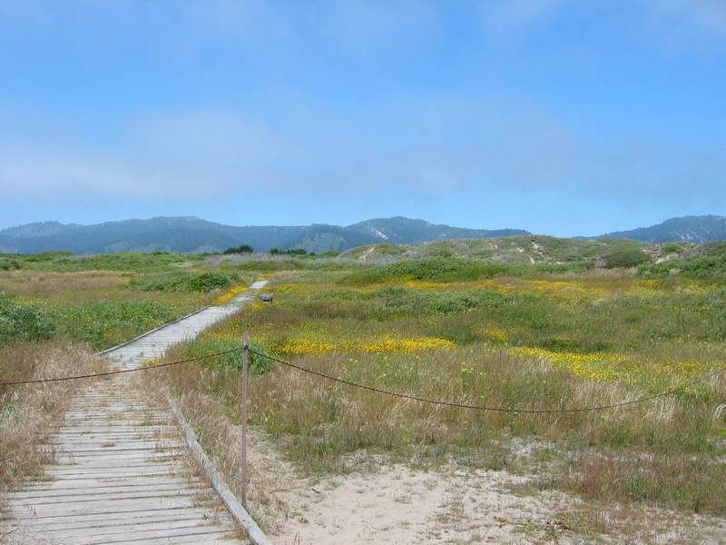 View of Año Nuevo State Reserve. Photograph taken by me on 30th of may 2005